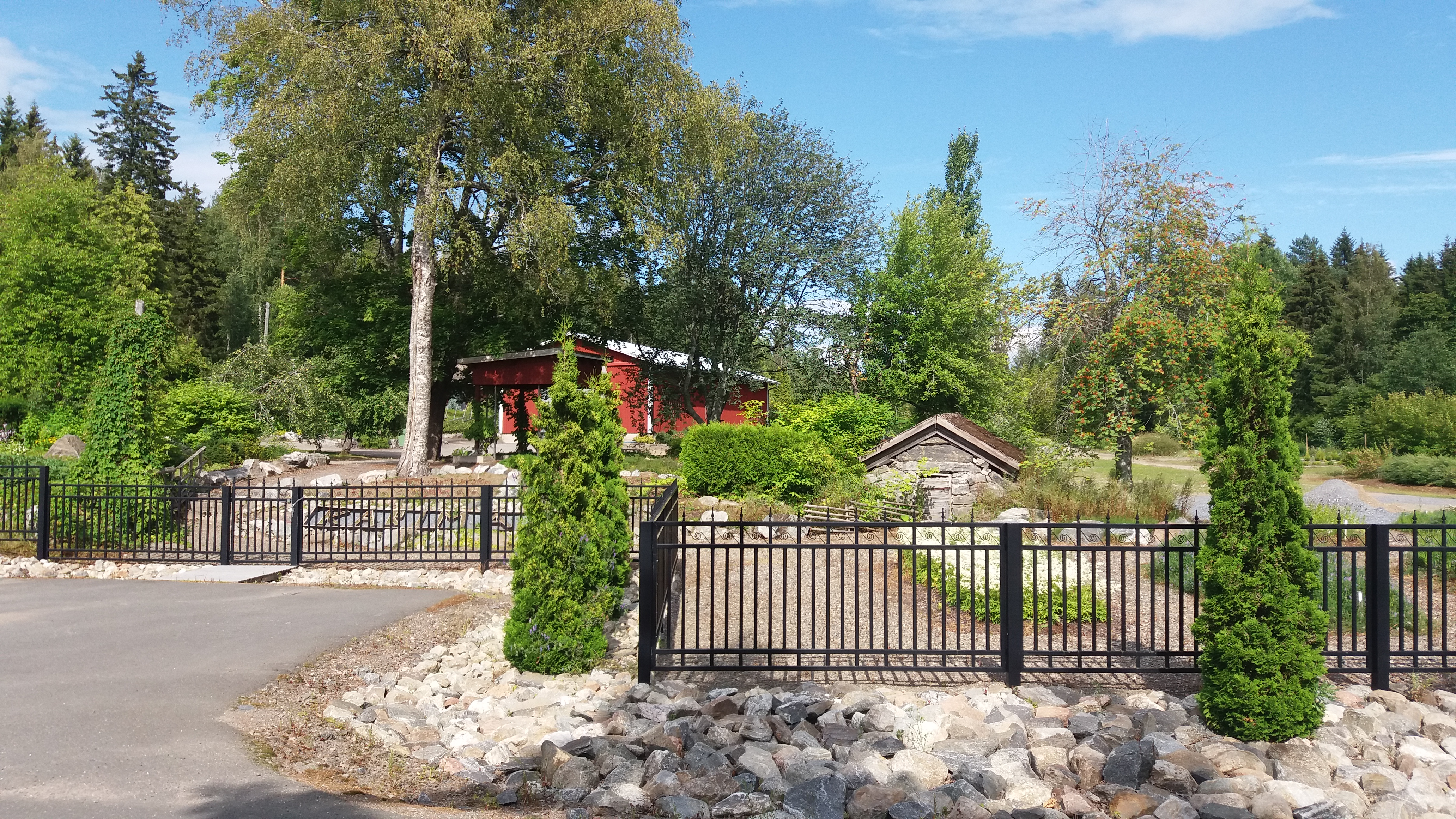 Karimaa Arboretum, Kokemäki, Finland.